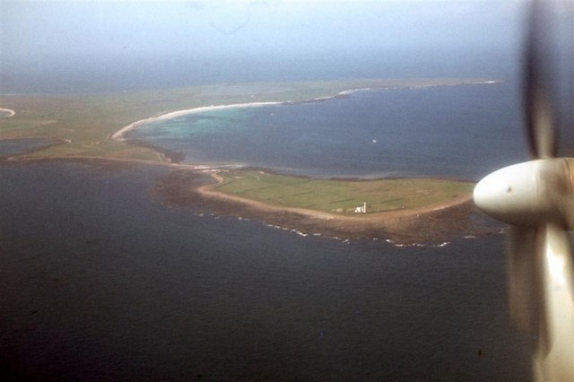 Start Point, Sanday. The eastern extremity of Sanday, with the lighthouse, as seen from a BA [or it might have been BEA] Viscount. For a better image of the lighthouse see 252410. The black and white decor in that photo is not evident in this one - it might have had a make-over since it was taken in 1974.